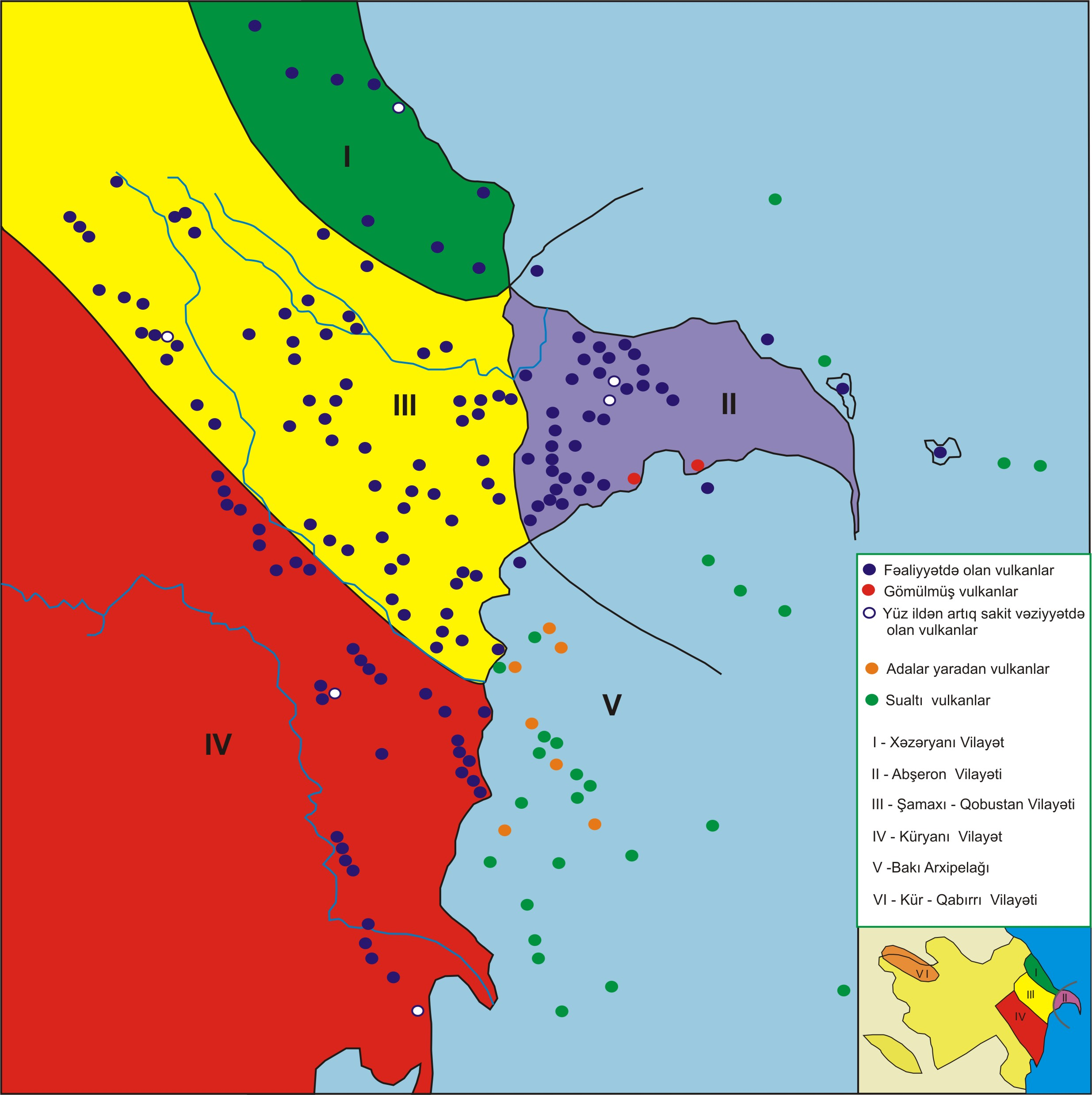 Azerbaijan mud volcano map